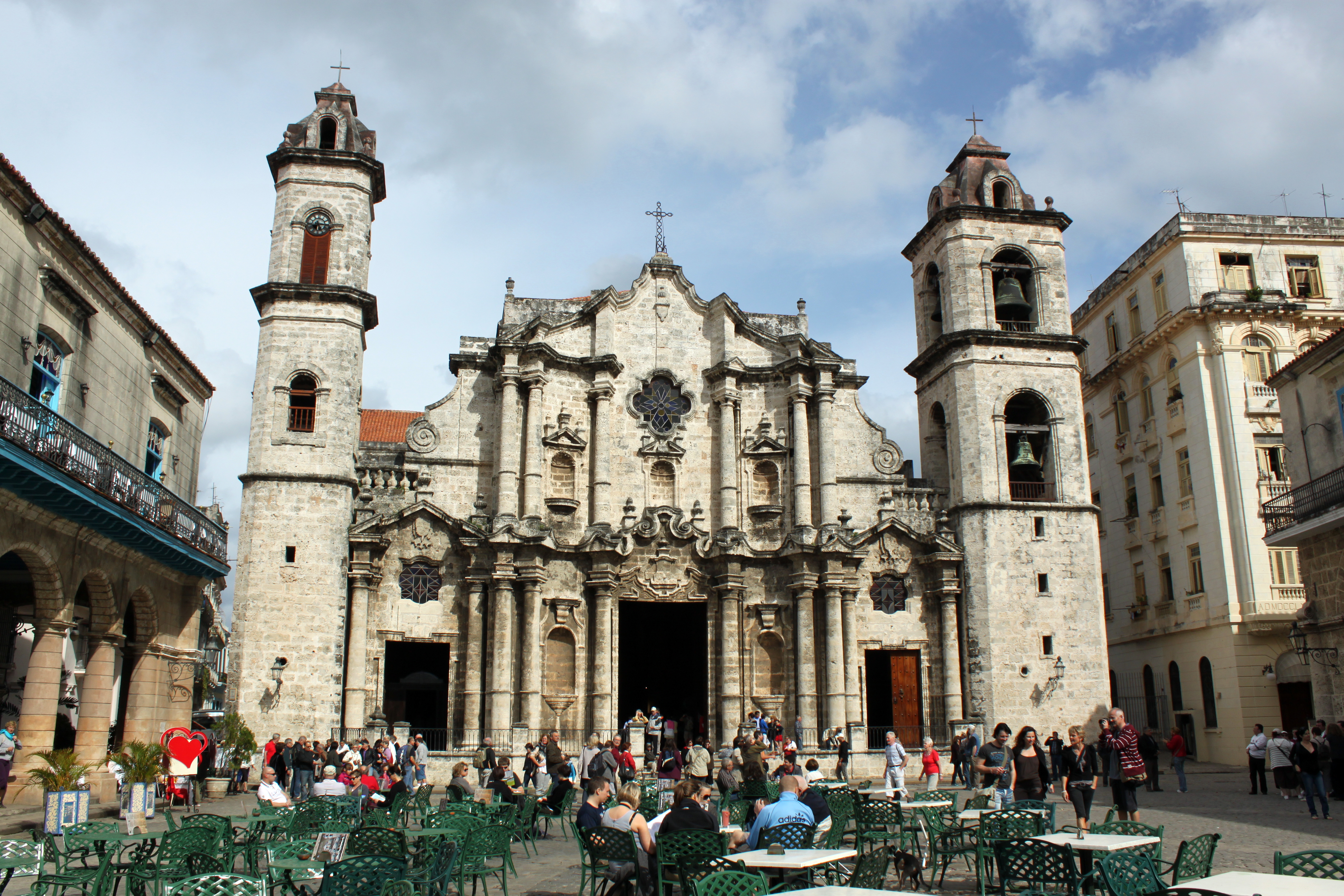 Catedral de San Cristóbal — in Havana, Cuba. A Spanish Colonial Baroque style church.